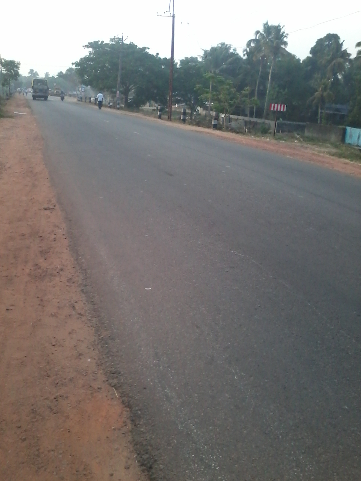 Kollam Bypass is one of the important roads in Kollam district of Kerala.It forms an important link between Mevaram and Altharamoodu.This photo was taken at Palathara which shows the road passes through Palathara.